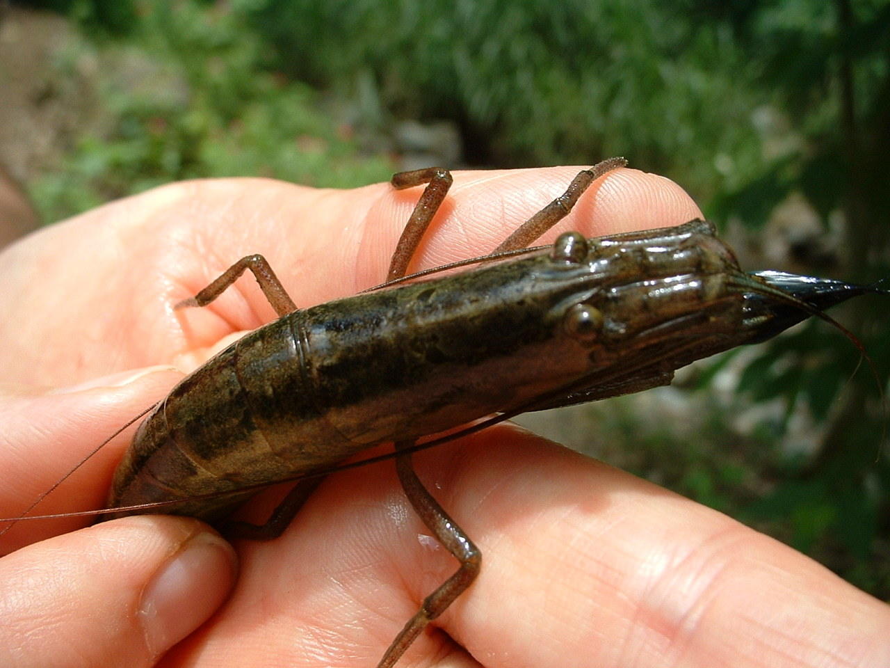 This photo of the freshwater shrimp, Atya lanipes (Family: Atyidae), was taken in Puerto Rico.